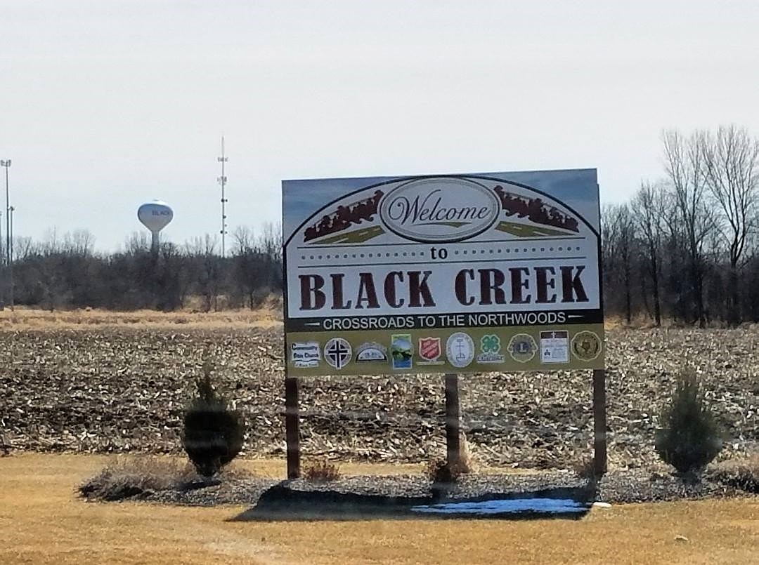 New village gateway signage installed during 2017 by the Black Creek Lions Club in Black Creek, Wisconsin.